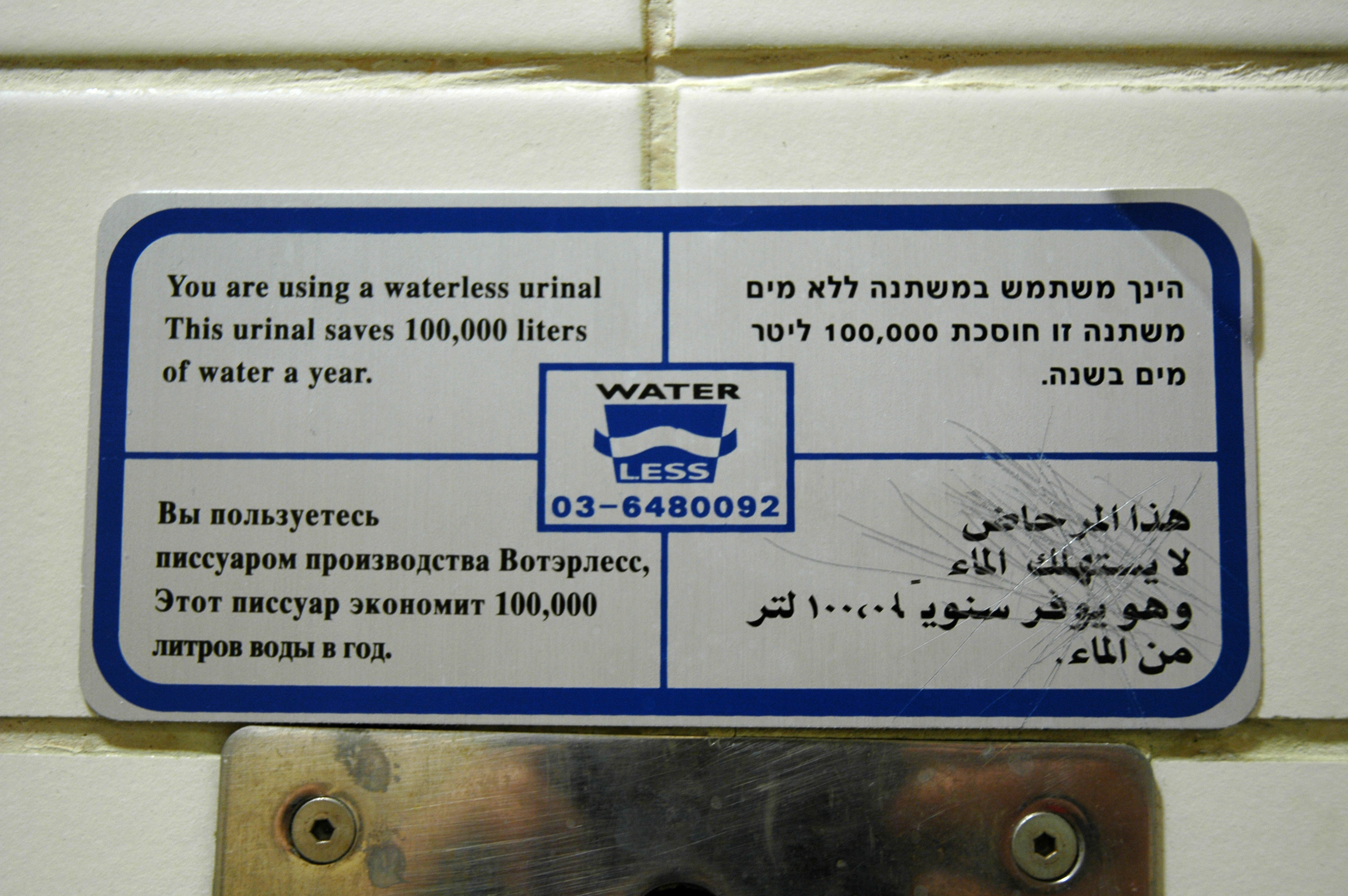 Sign above a urinal in the Israeli international Ben Gurion airport translated into four languages spoken in Israel: Hebrew, English, Russian and Arabic. The Arabic has been scratched out.